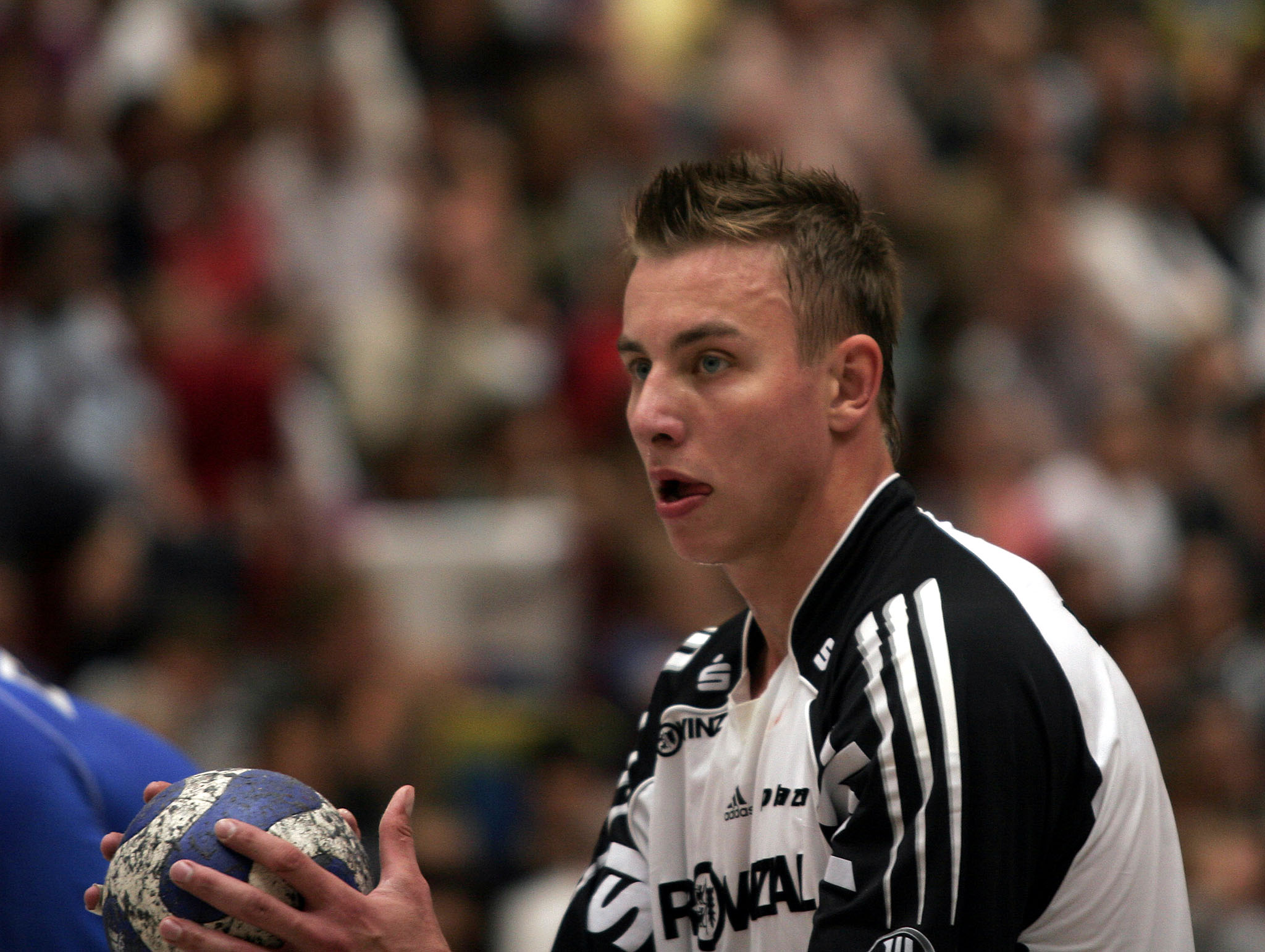 Filip Jícha, Czech handball player, during the Schlecker Cup 2007 in Ehingen